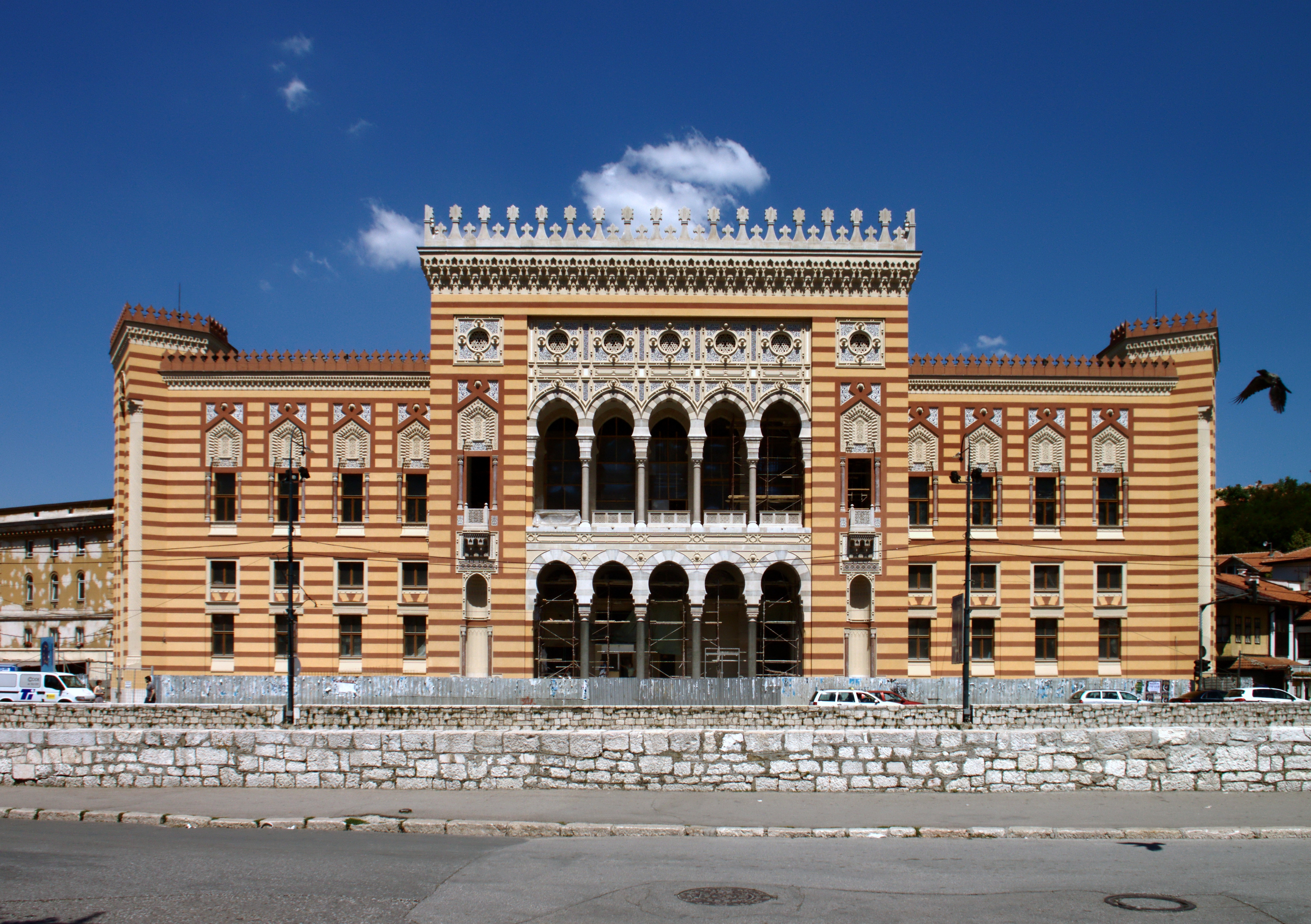 Almost finished reconstruction of the town hall/library building in Sarajevo, BiH